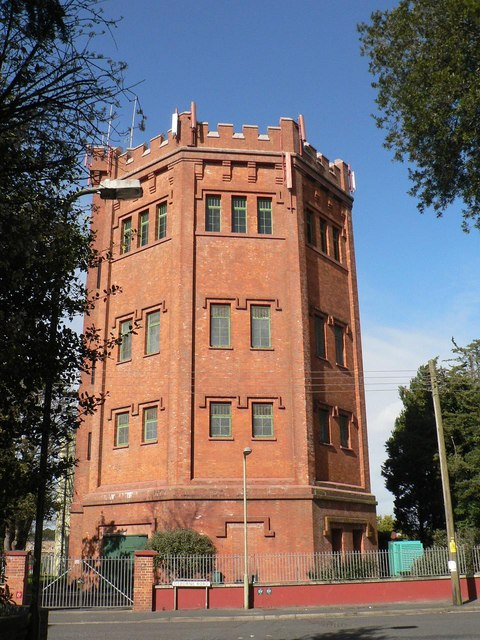 New Milton Original description: New Milton: water tower An impressive octagonal edifice in Osborne Road.